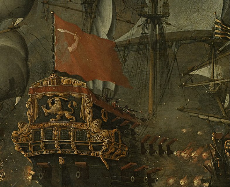 bloodflag